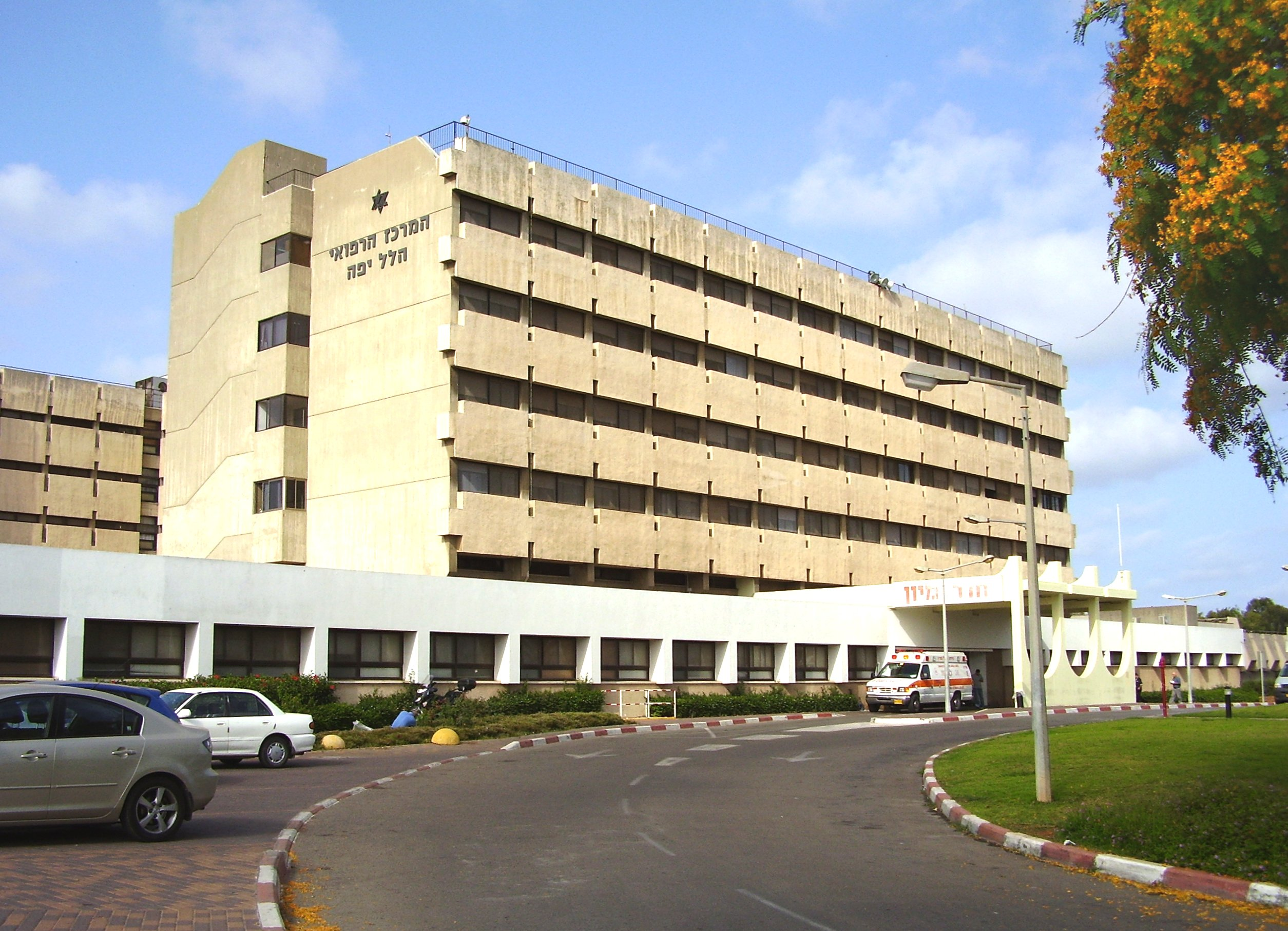 The Hillel Yaffe Medical Center emergency room entrance; view from east-nort-east